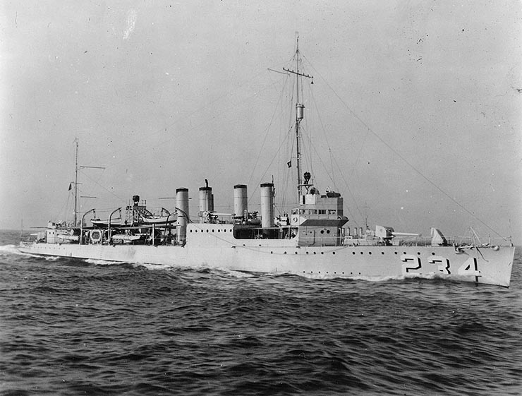 The U.S. Navy destroyer USS Fox (DD-234) underway, during the 1920s or 1930s.